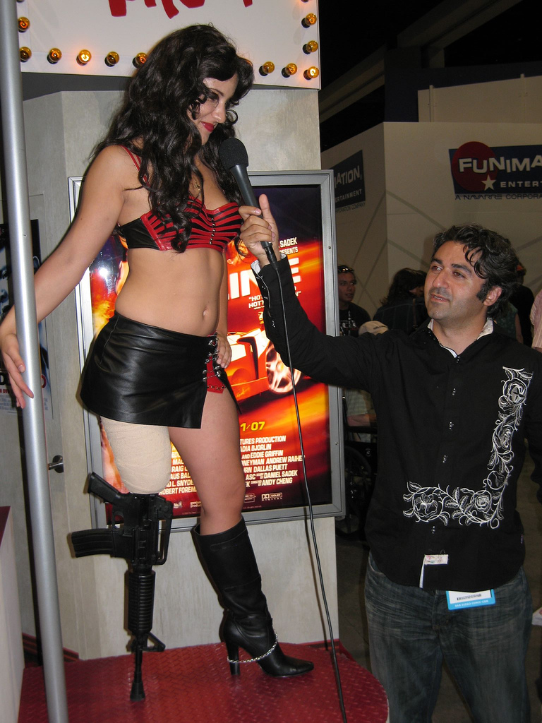 Actress playing the character Cherry, from the movie "Planet Terror" (2007) (part of the Grindhouse feature). Photo from the san diego comic con international 2007